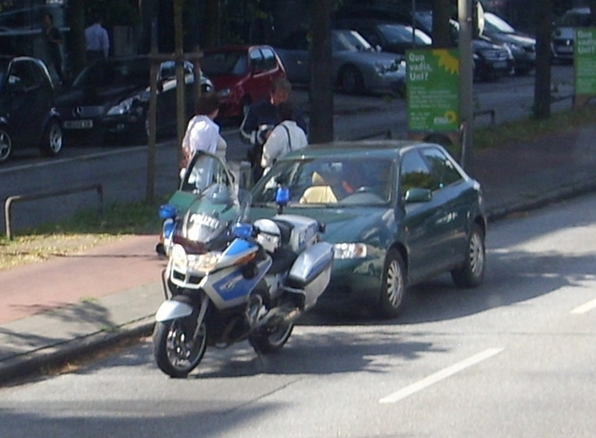 Hamburg (Germany) – motorcycle speed cop during a police check